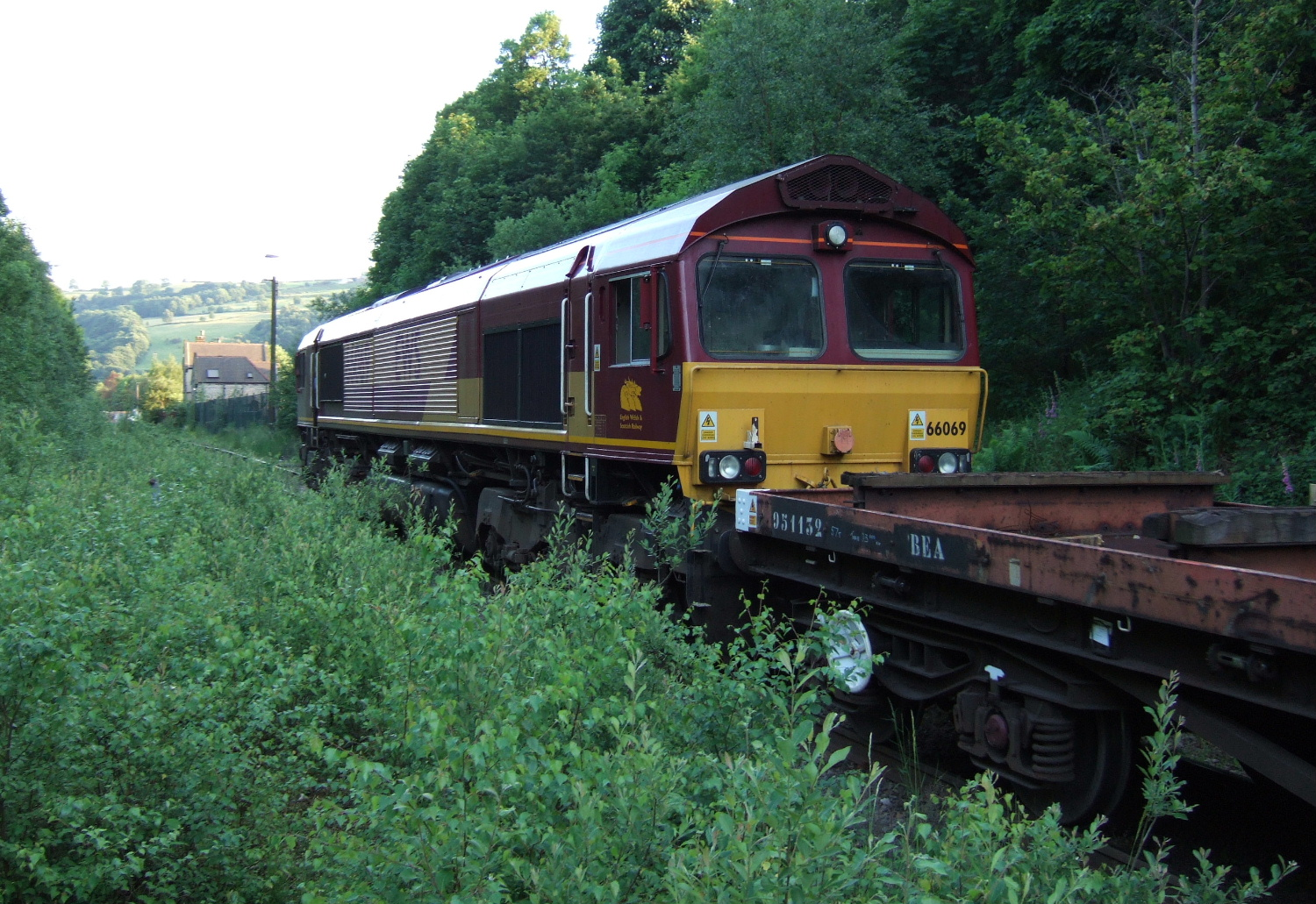 At Deepcar Station on the Woodhead route, EWS 66056 leaves the Stocksbridge Railway and moves onto the Network Rail line to Sheffield. The train is empty steel wagons (BEA, SEA & SPA types) returning from Stocksbridge Steelworks to Aldwarke Steelworks (Rotherham). Both works are owned by Corus. Deepcar Station building can be seen in the middle distance. 20th June 2005. Photographer - Andrew.M.Hurrell Camera - Fuji FinePix F10 Modified - Trimmed and file size reduced using Finepix Software This loco was transported to france in 2007 and is based in paris...SS